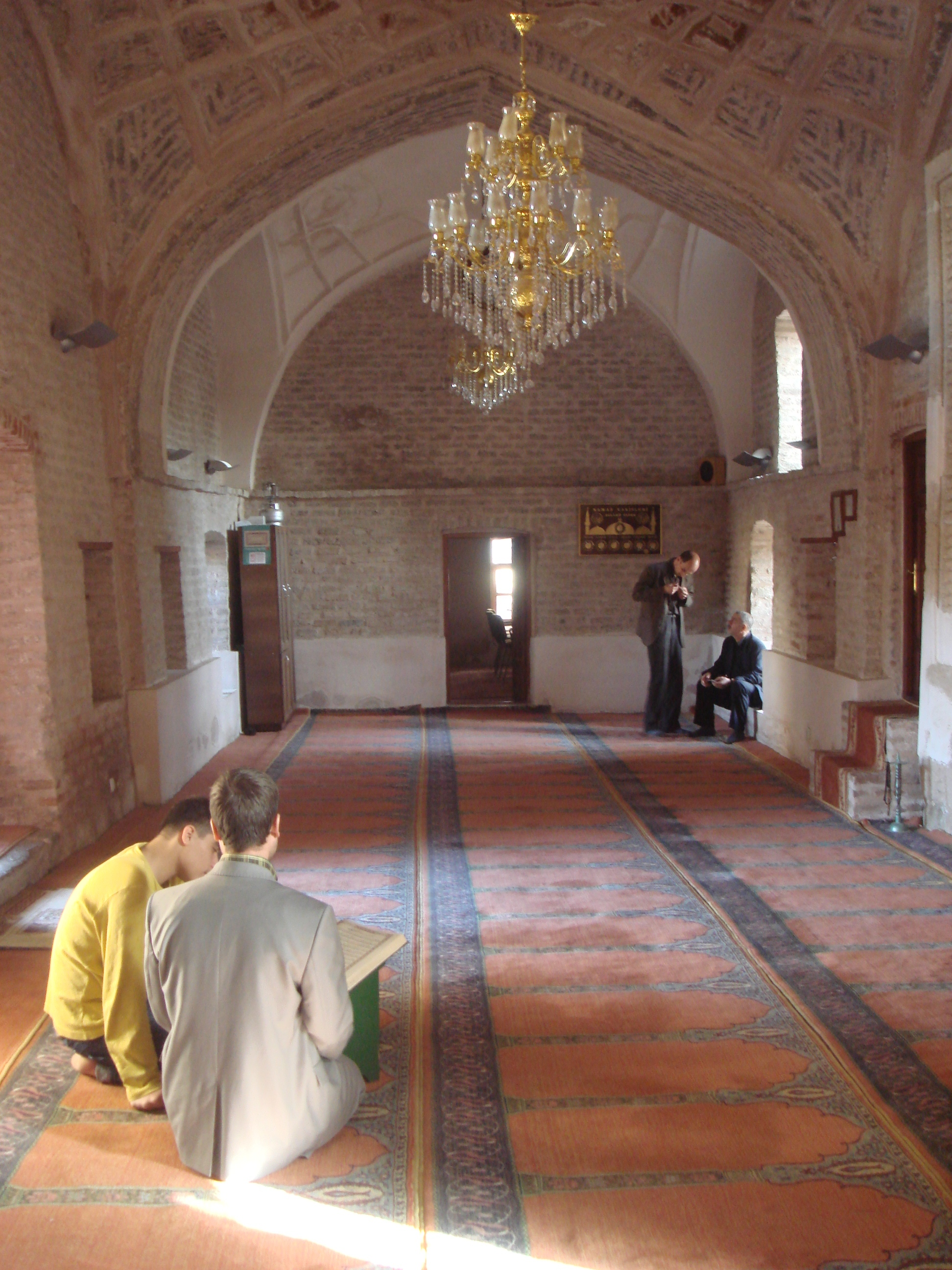 The Red Madrasa of Cizre, 2009. Kurdî: Medreseya Sor a Cizîra Botan, 2009.